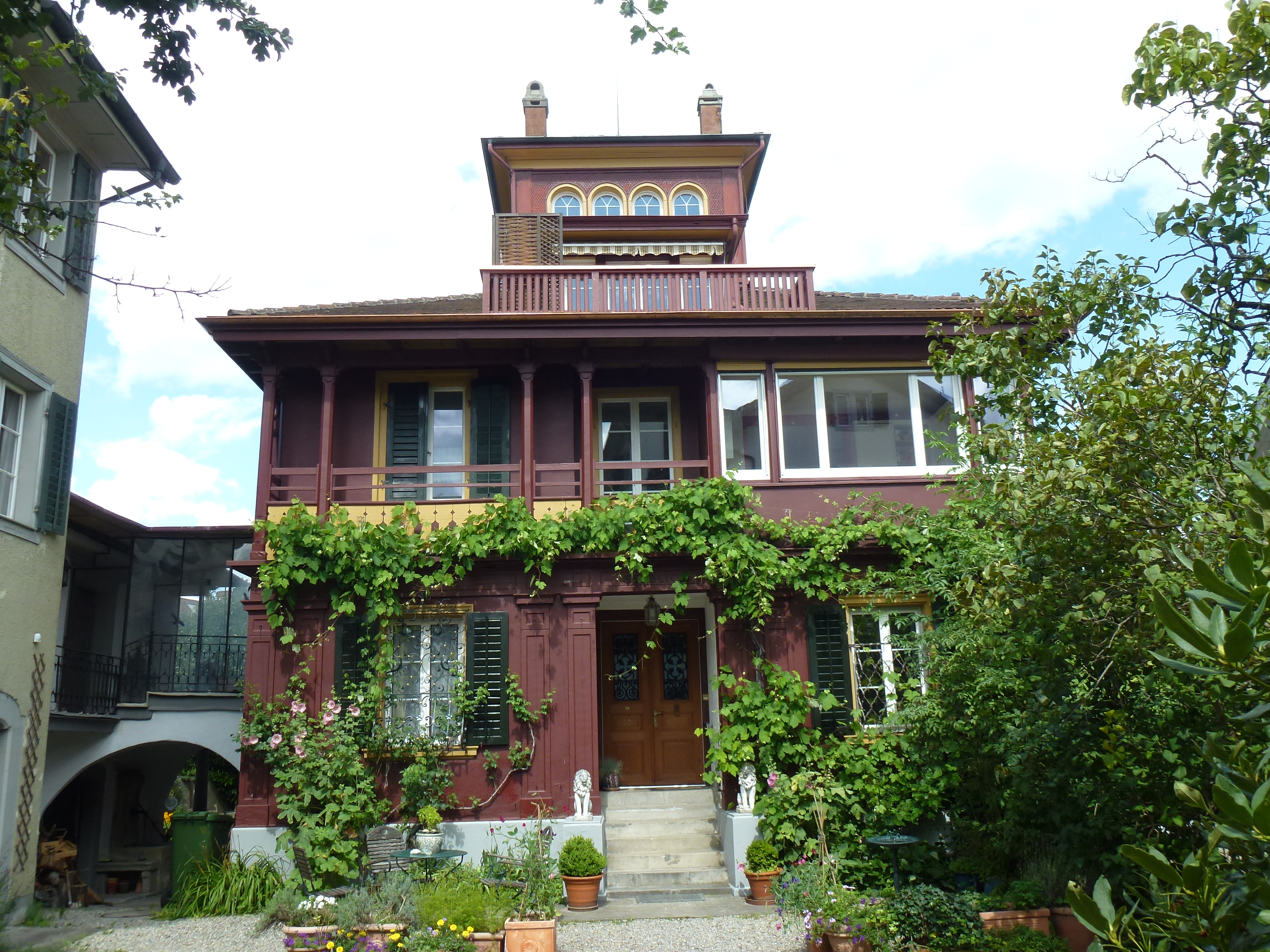 Wohnhaus Richterswil